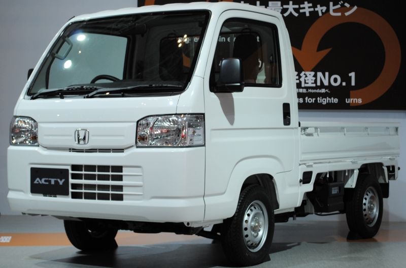 Honda Acty.